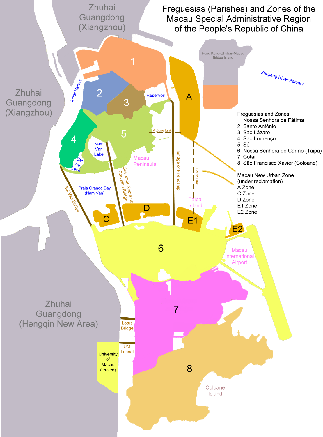 Map of Macau